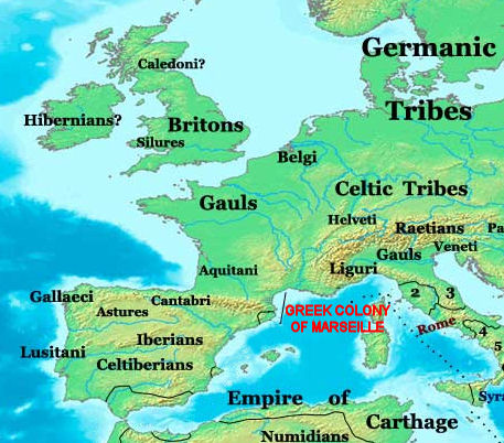 Greek colonies of Marseilles (Massilia), ca. 323 BCE